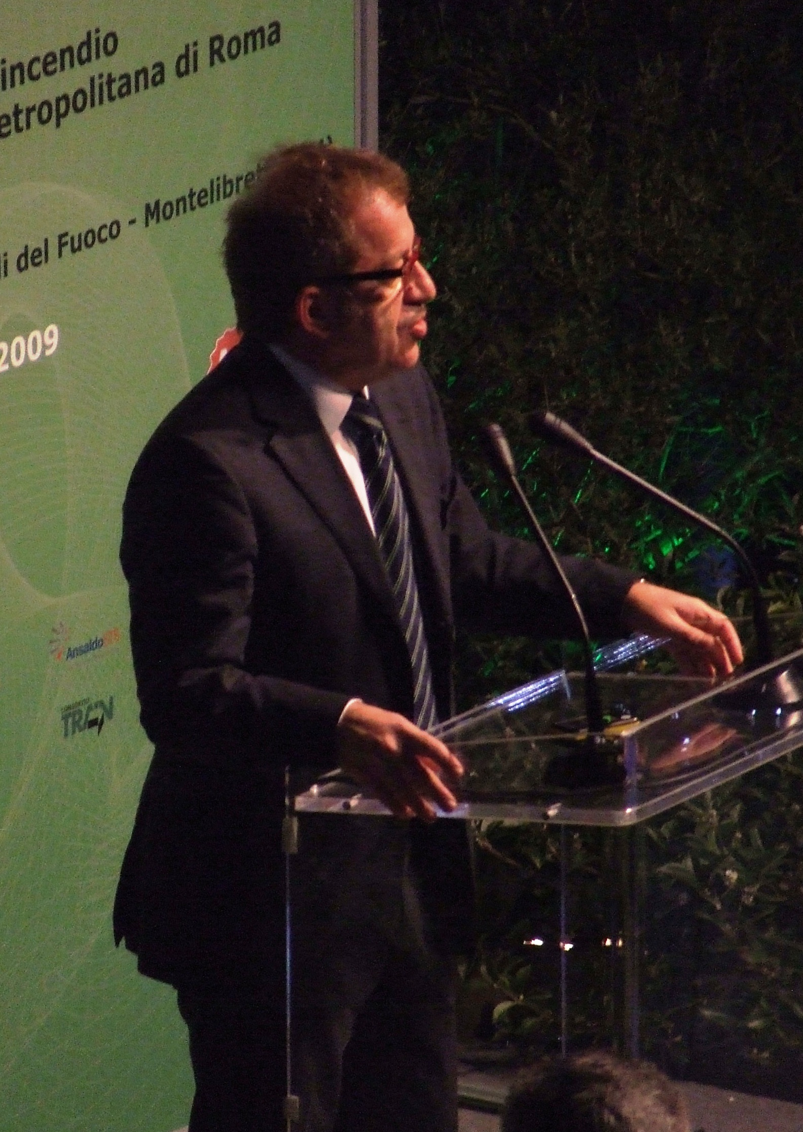 Roberto Maroni, 2009, Italian Minister of the Interior